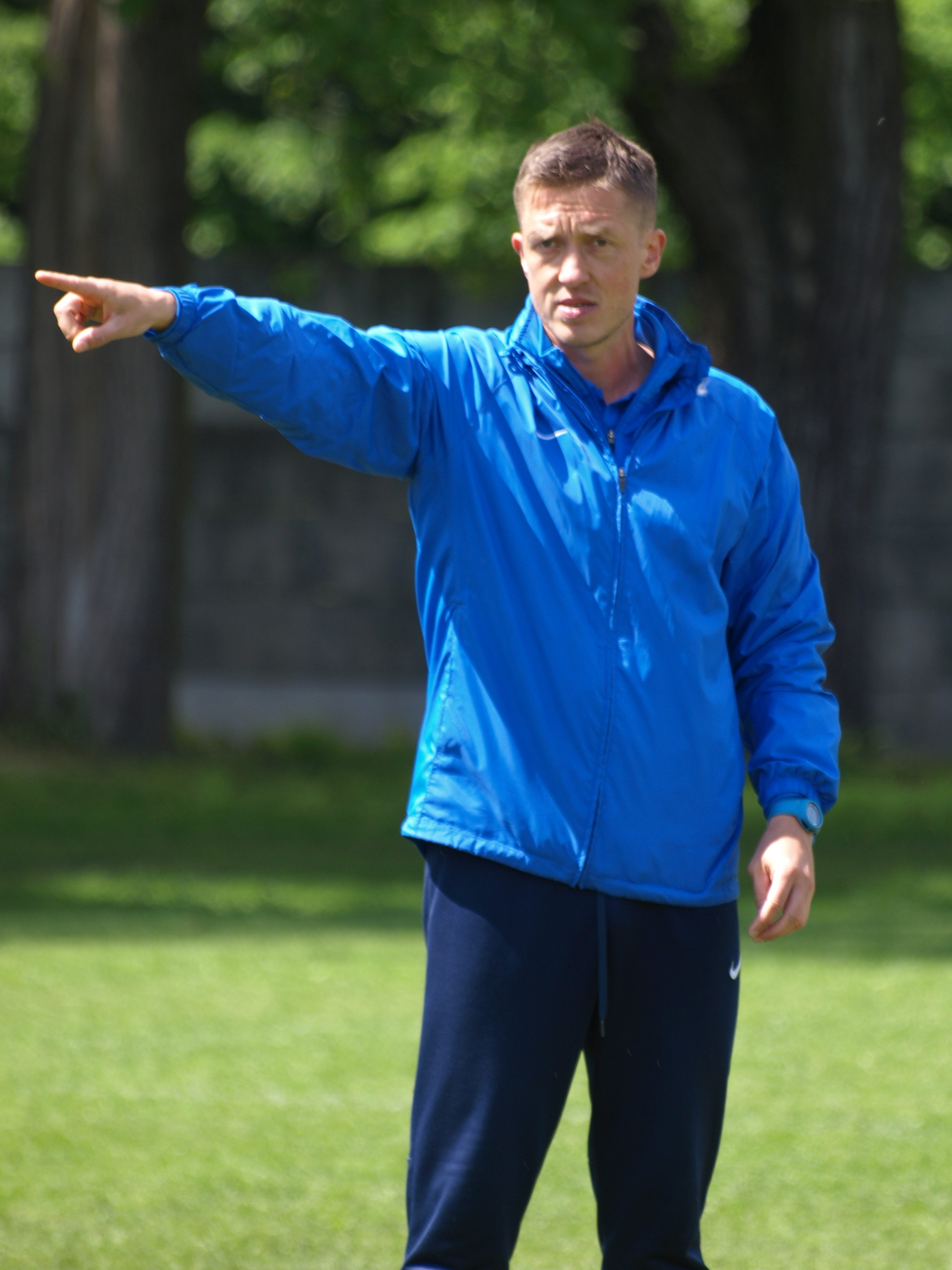 Dariusz Sztylka - Coach in the Football Academy Olympic Wrocław (Poland)